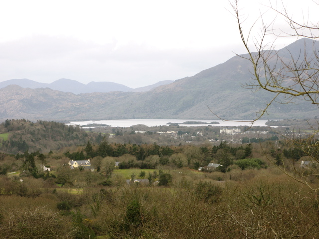 Tiernaboul, Killarney, Co. Kerry, Ireland A little further up the road than my other photo. Lough Leane is in the middle distance with Rough Island on the right of the lough and Cow Island to the left. The mountains areMacGillycuddy's Reeks. Killarney Town would be to the right.